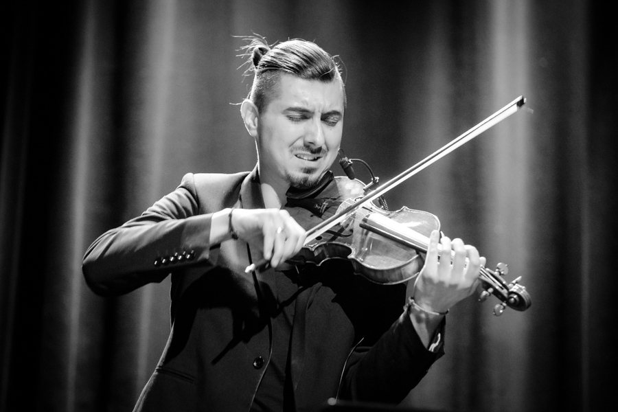 Adam Bałdych with his Quartet at Cosmopolite. The concert took place on 02. February 2018 in Oslo. Lineup: Adam Baldych (violin), Krzysztof Dys (piano), Michał Barański (double bass) and Dawid Fortuna (percussion).